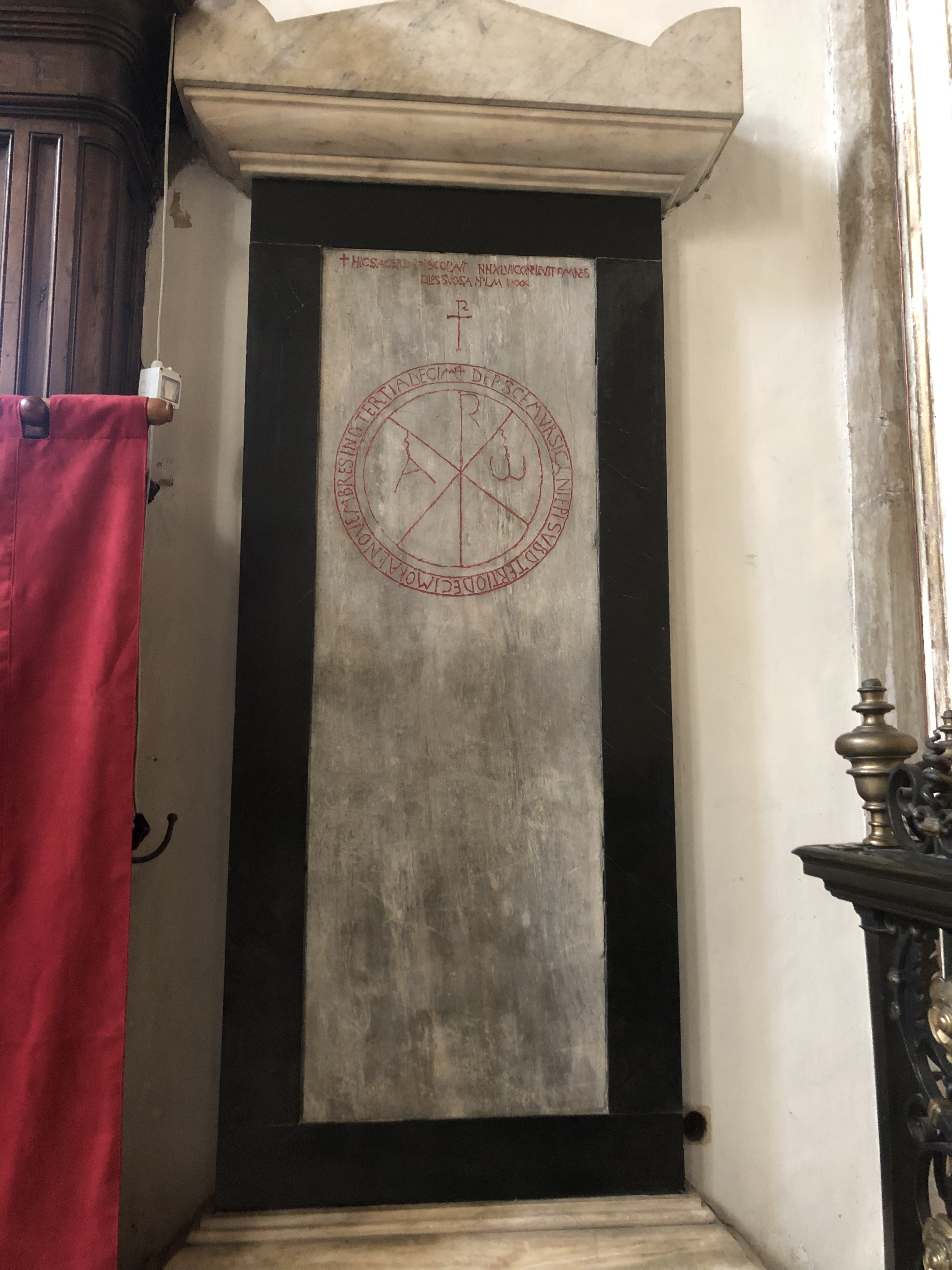 Torjno